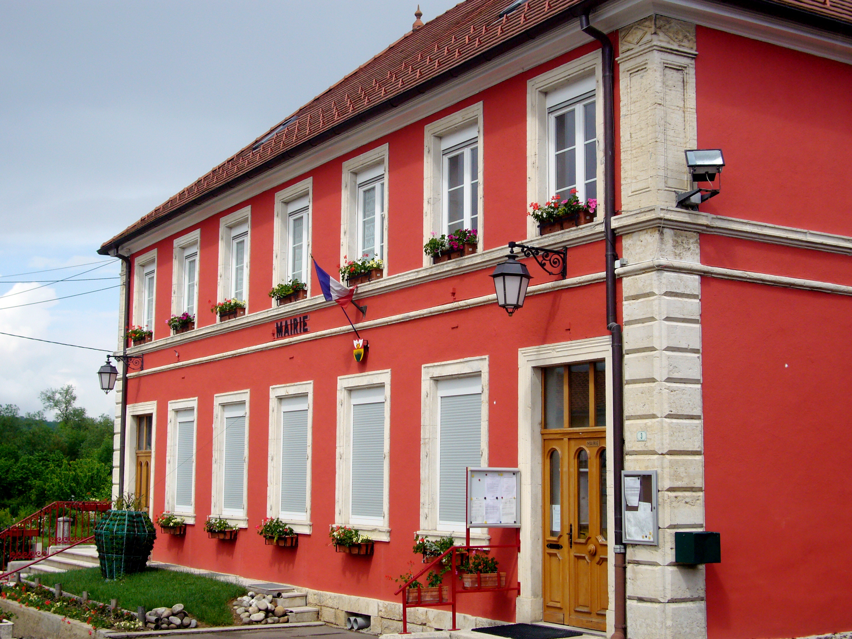 Joncherey's Town Hall renovated